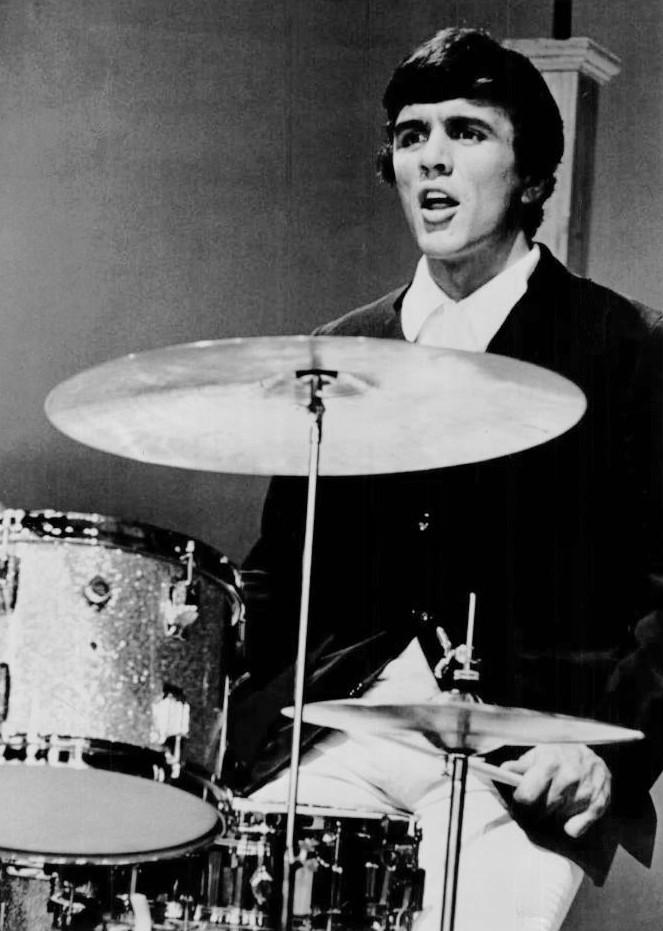 Photo of Dave Clark of the musical group The Dave Clark Five.